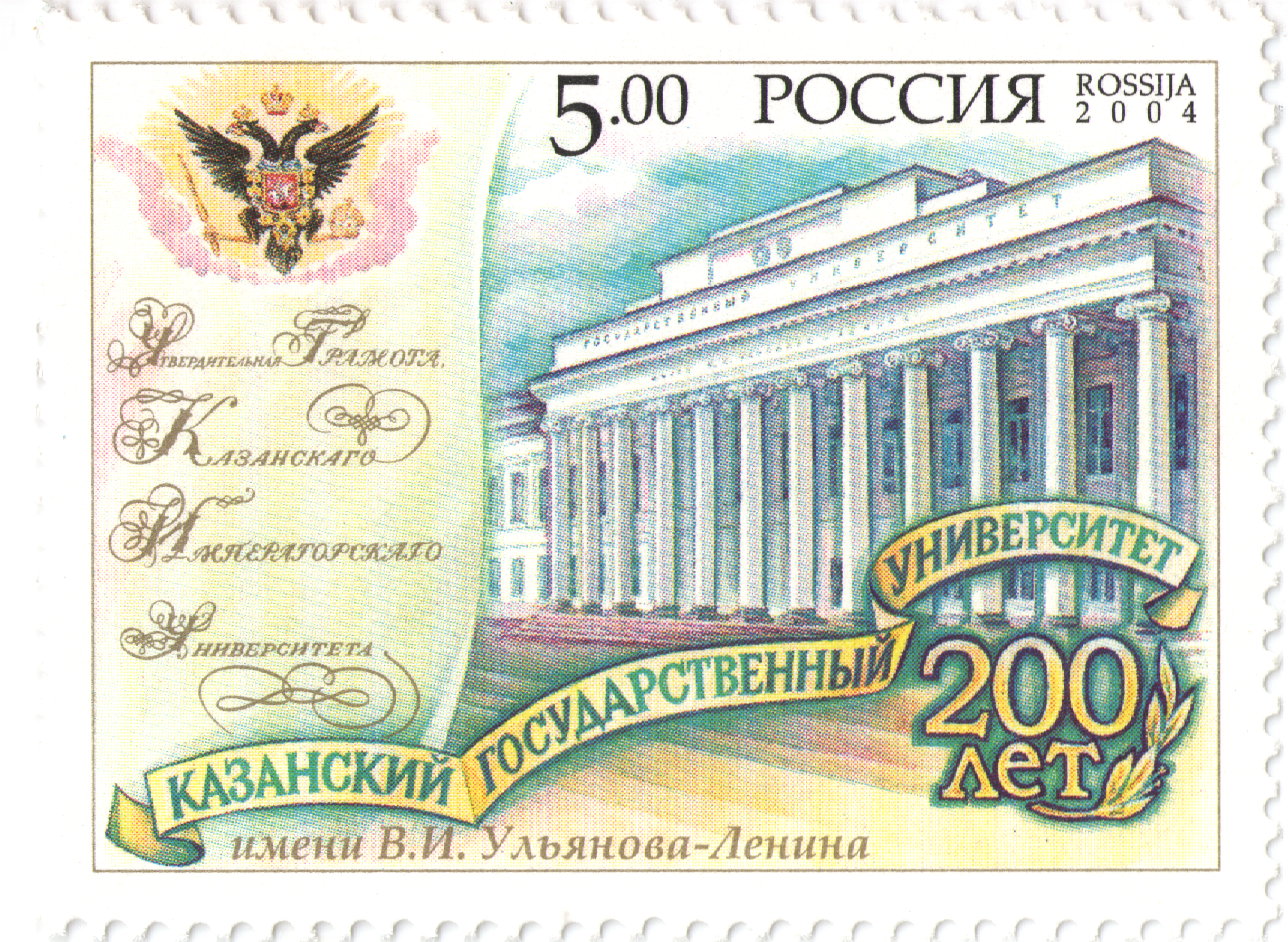 Russian postal stamp of Kazan State University. Cost 5 rubles.